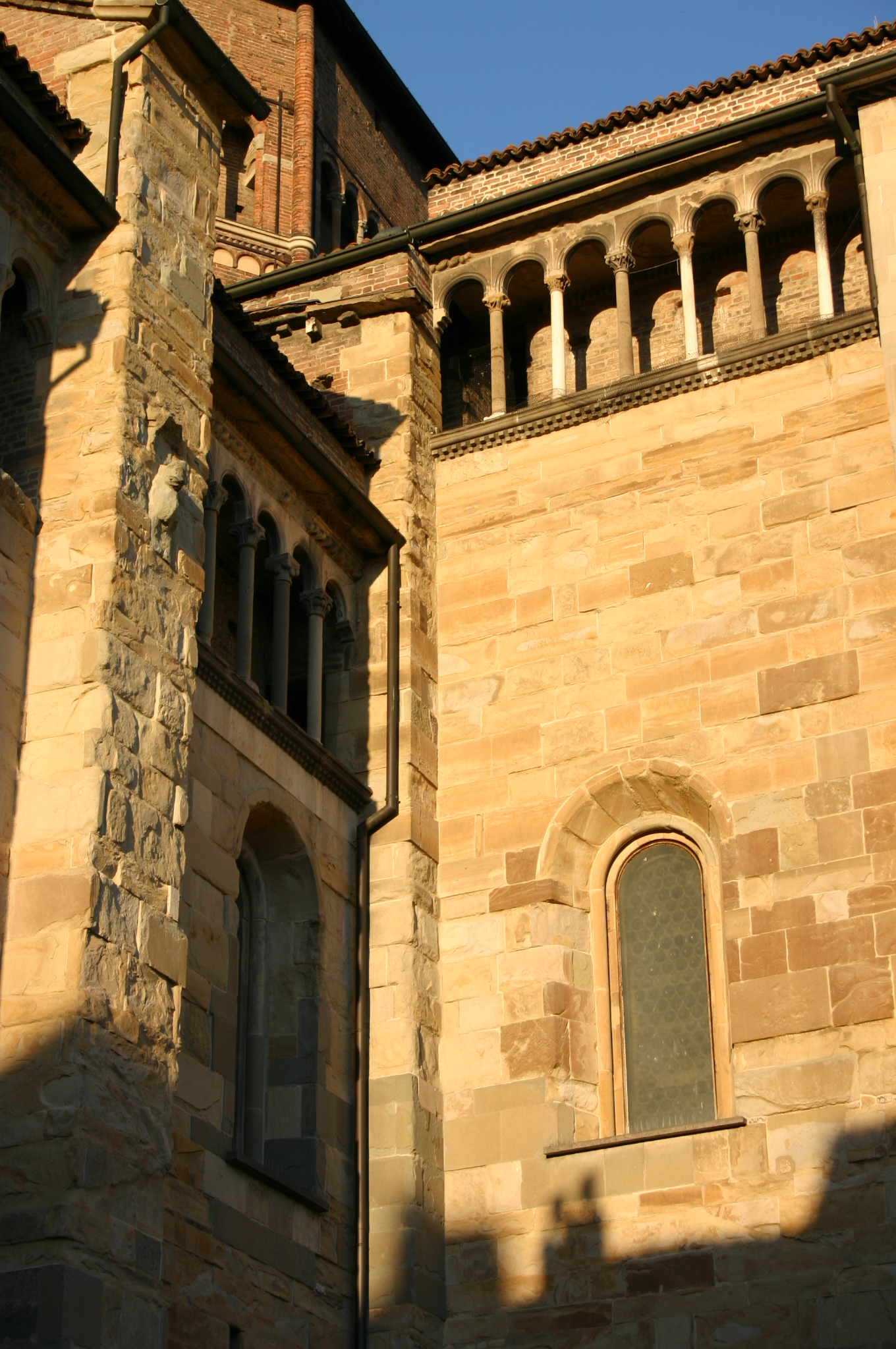 Detail from the flank of the Duomo in Piacenza, Italy. Picture by Giovanni Dall'Orto, July 14 2007.